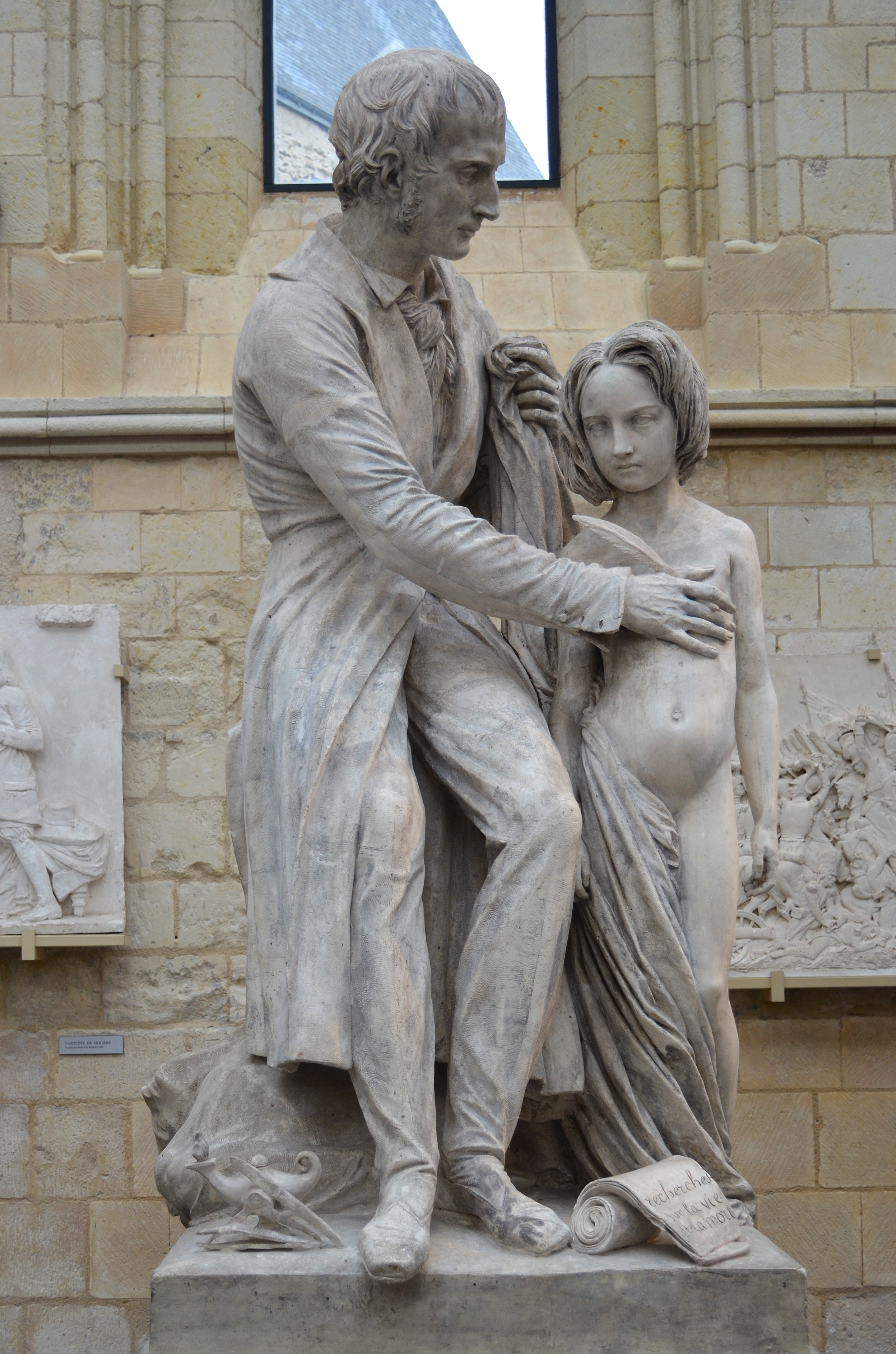 Marie François Xavier Bichat by David d'Angers, plaster, David d'Angers museum, Angers (Maine-et-Loire, France)